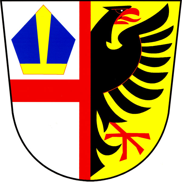 Coat of amrs of Svémyslice , District Prague-East, Czech Republic